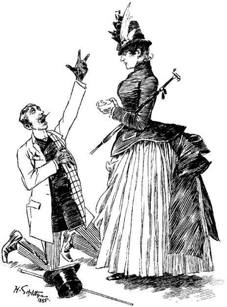 Caricature of a wedding proposal -- she's wearing the latest bustled fashions, and he seems to be so desperate that he's down on two knees (not just one). They seem to have been out walking (perhaps to gain some privacy), as seen from his sturdy waistcoat, dark gloves, and cane, and her parasol, jacket, and vaguely pseudo-Tyrolean hat.